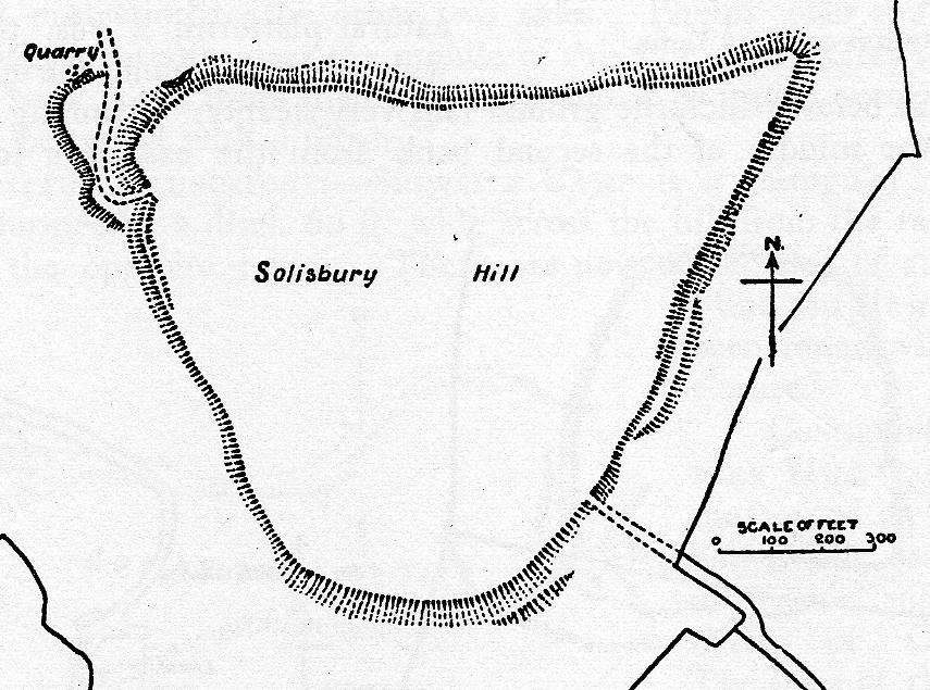 Map of earthworks at Solisbury Camp, Somerset, England.